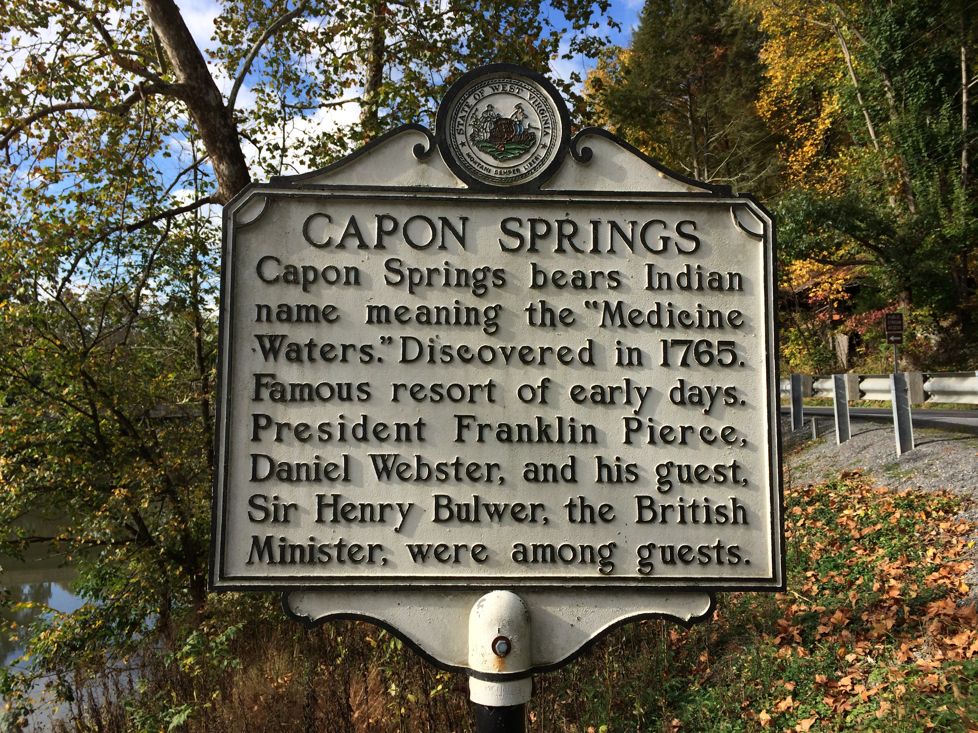 A West Virginia state highway historical marker illustrating a brief history and description of Capon Springs Resort. The marker reads: "Capon Springs bears Indian name meaning the "Medicine Waters." Discovered in 1765. Famous resort of early days. President Franklin Pierce, Daniel Webster, and his guest, Sir Henry Bulwer, the British Minister, were among guests." The highway historical marker is located along Carpers Pike (West Virginia Route 259) in Capon Lake, West Virginia. Photographed by Justin A. Wilcox of Washington, D.C. on October 5, 2014.